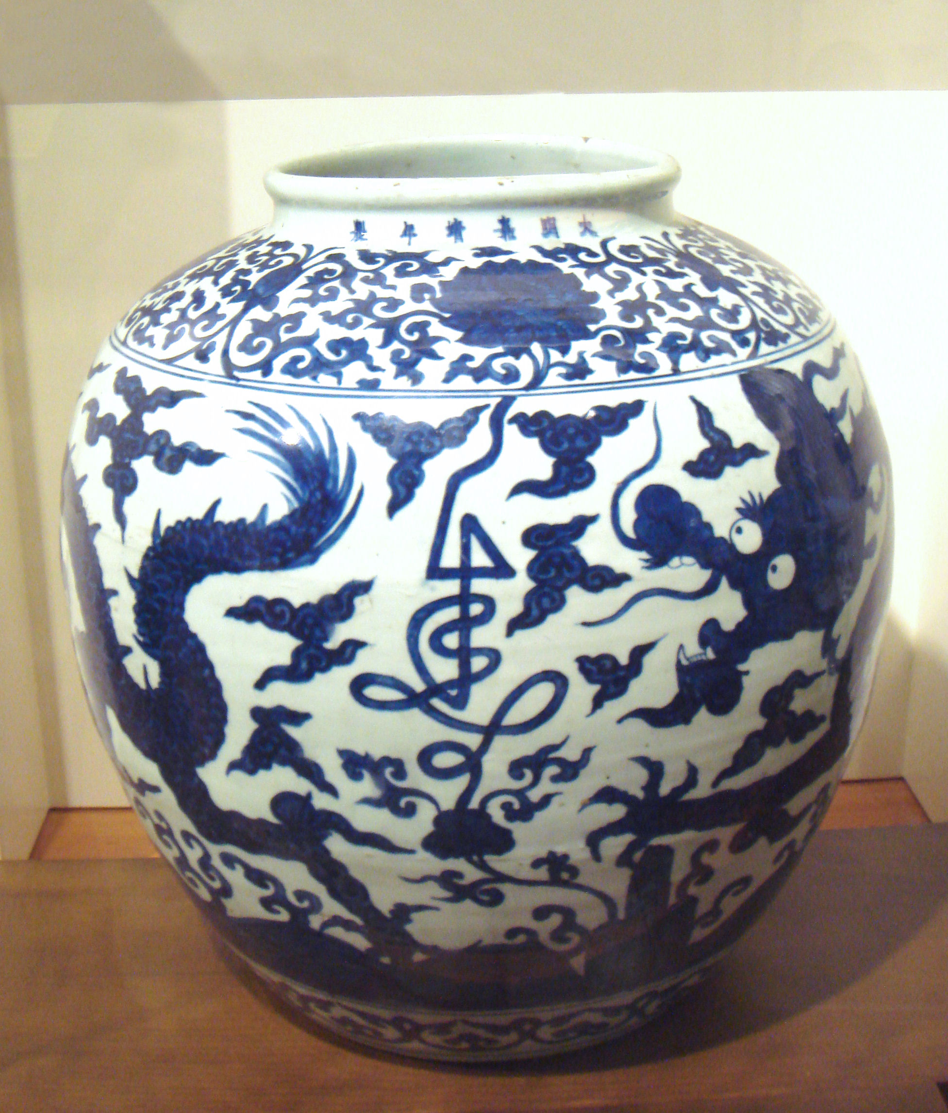 Blue_and_white_jar_Ming_Jiajing_1522_1566